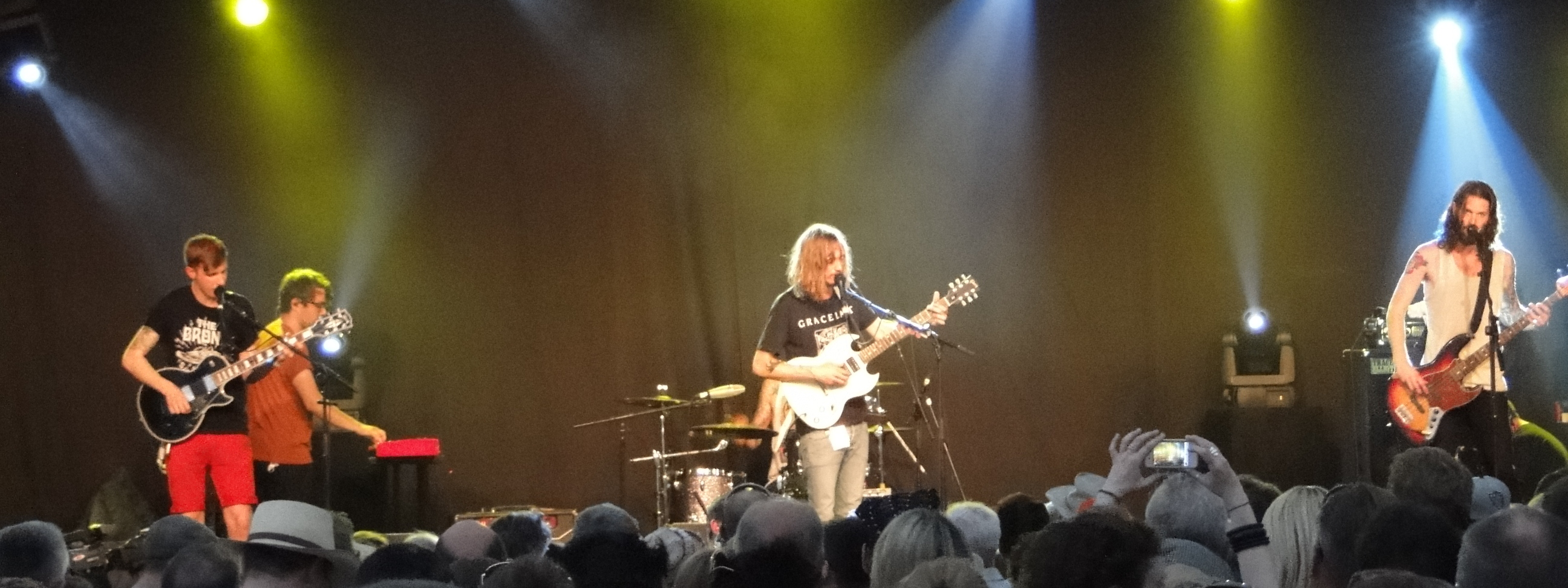 Dry The River at Cambridge Folk Festival, July 2012